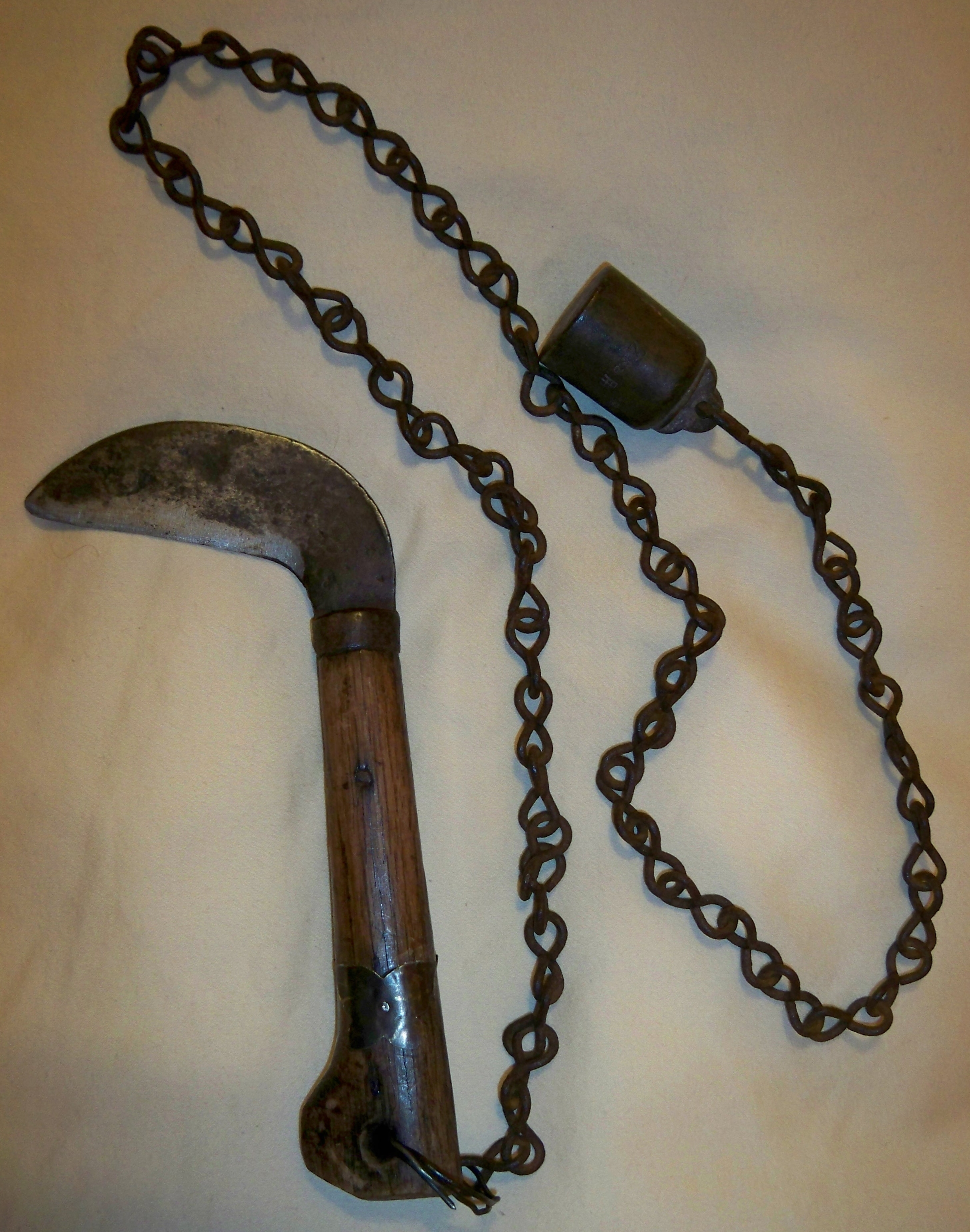 Japanese kusarigama